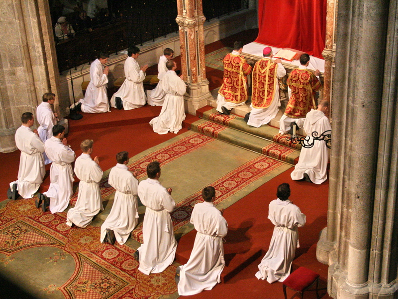 Good Friday liturgy - the intercessory prayers, in Cistercian Abbey Heiligenkreuz